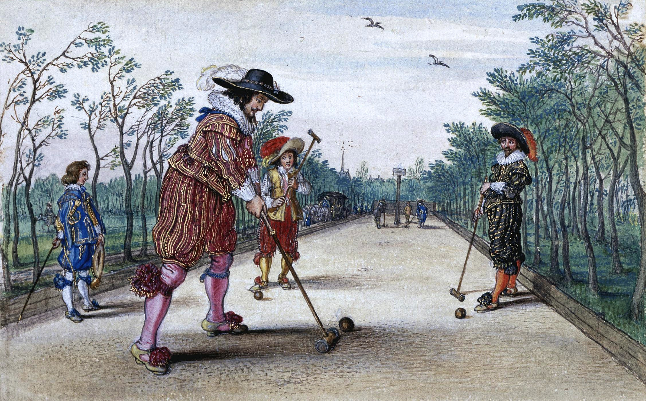 A game of Pell-Mell, from an album of 102 drawings; the Winter King about to strike a ball along the alley, two boys standing nearby and the stadholder Frederik Hendrik Watercolour with bodycolour, over black chalk, heightened with silver